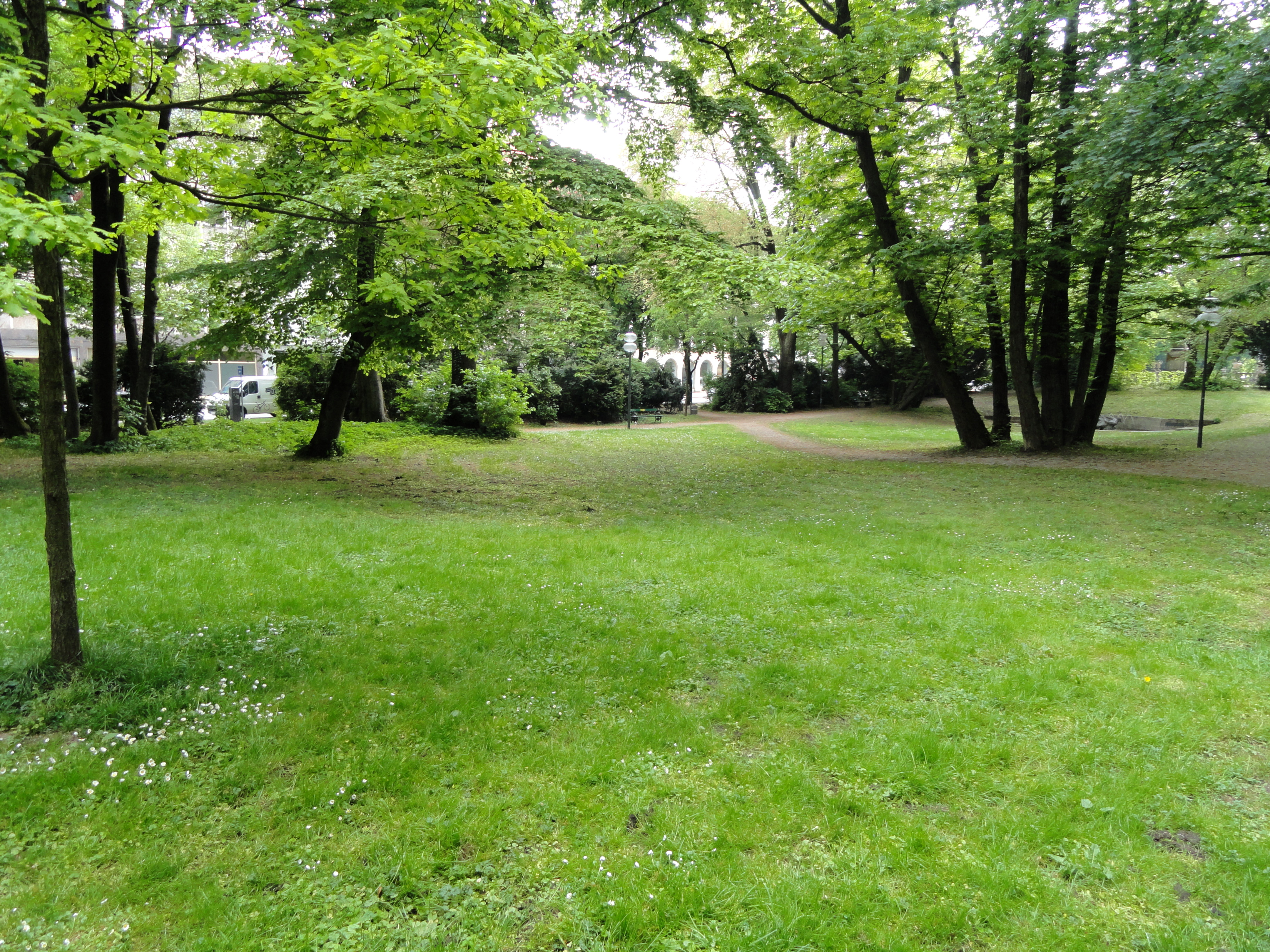 Maximiliansplatz, Munich, Germany.